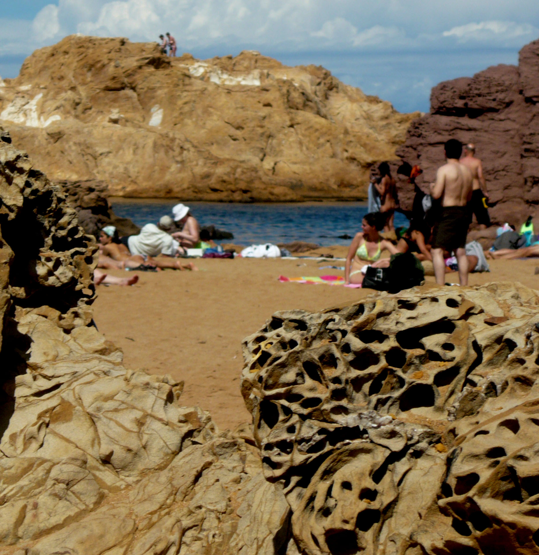 Piedras Cala Pregonda